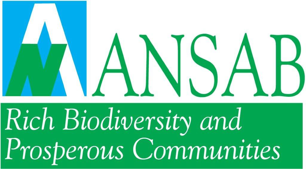 It is the official logo of Asia Network for Sustainable Agriculture and Bioresources (ANSAB)